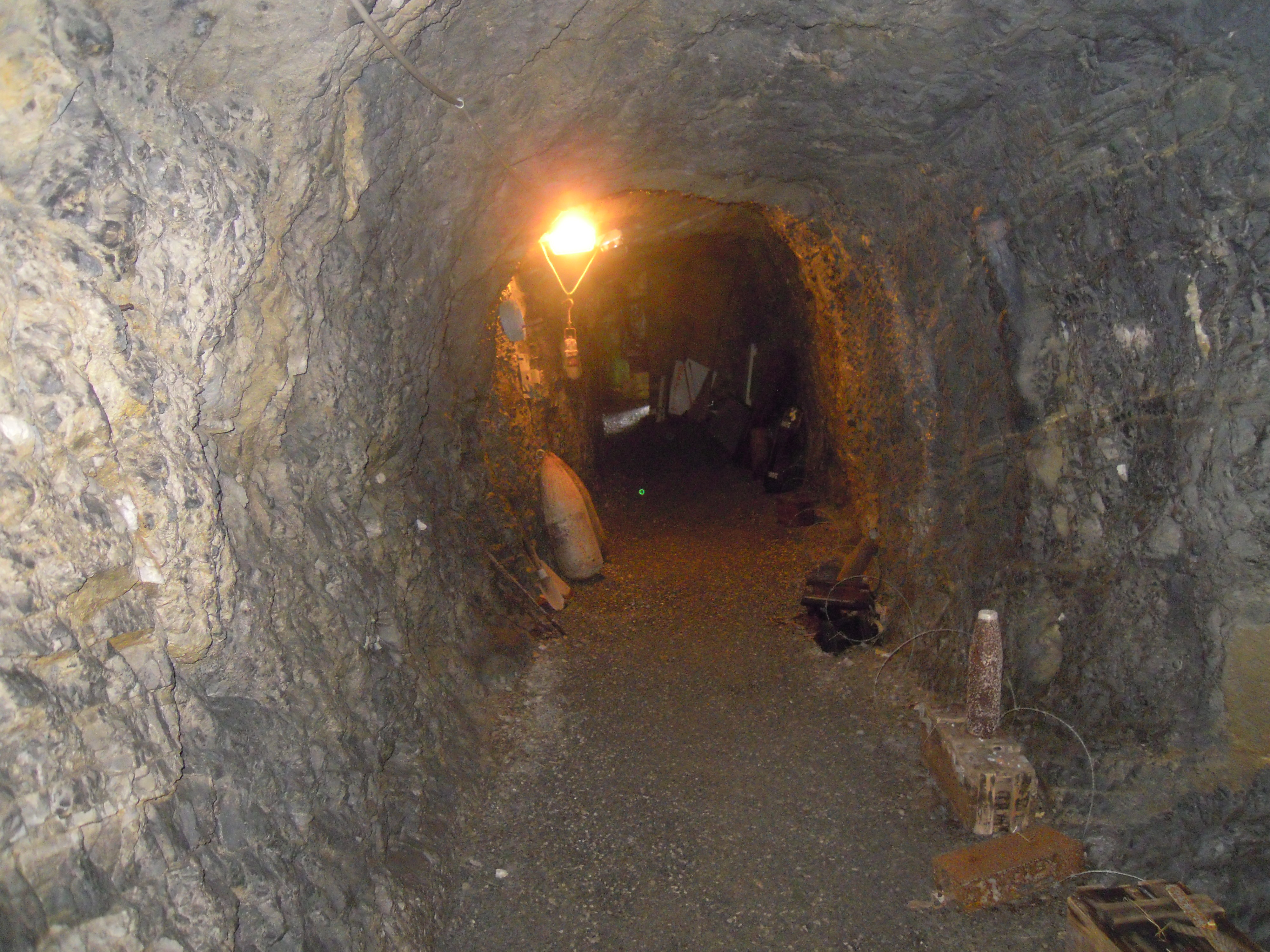 galleria